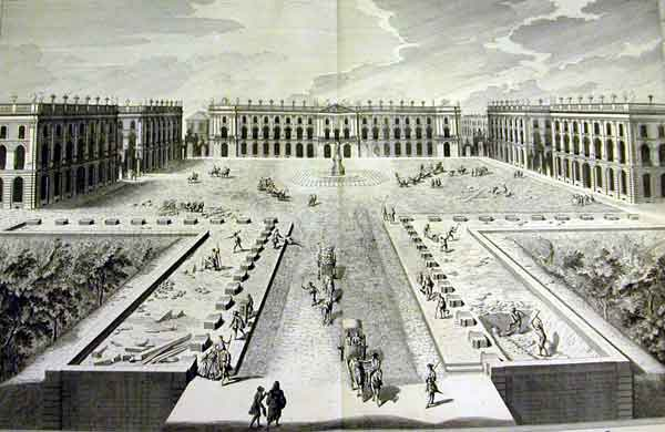 Vue en perspective de la Place Royale de Nancy, en direction de l'Hotel de Ville pendant les travaux.